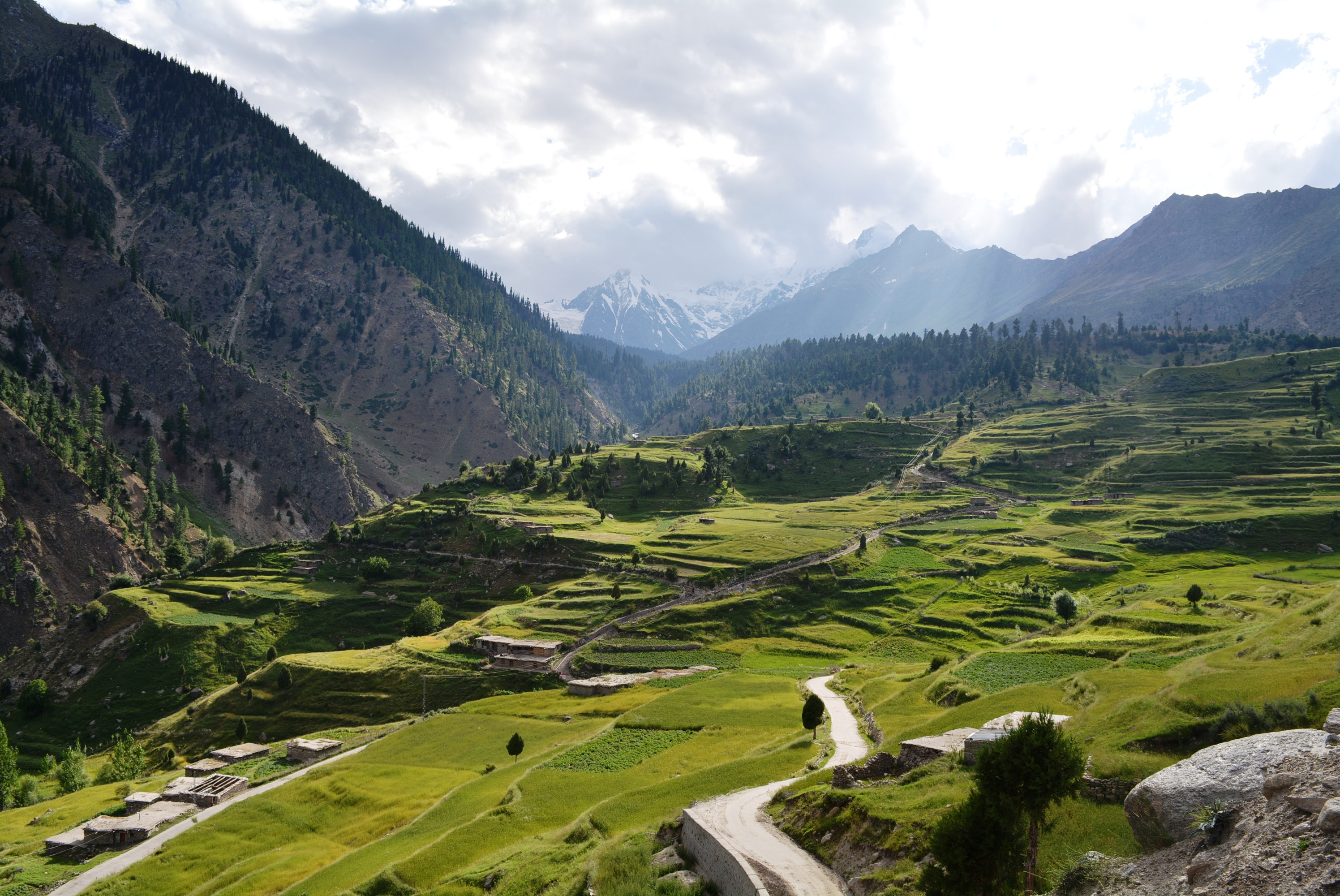 Nanga Parbat amidst clouds on the way to Rama Lake in Astore, Gilgit, Pakistan.